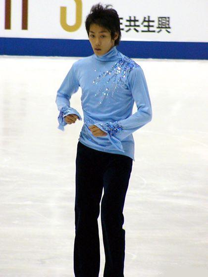 Kensuke Nakaniwa at the 2004 NHK Trophy